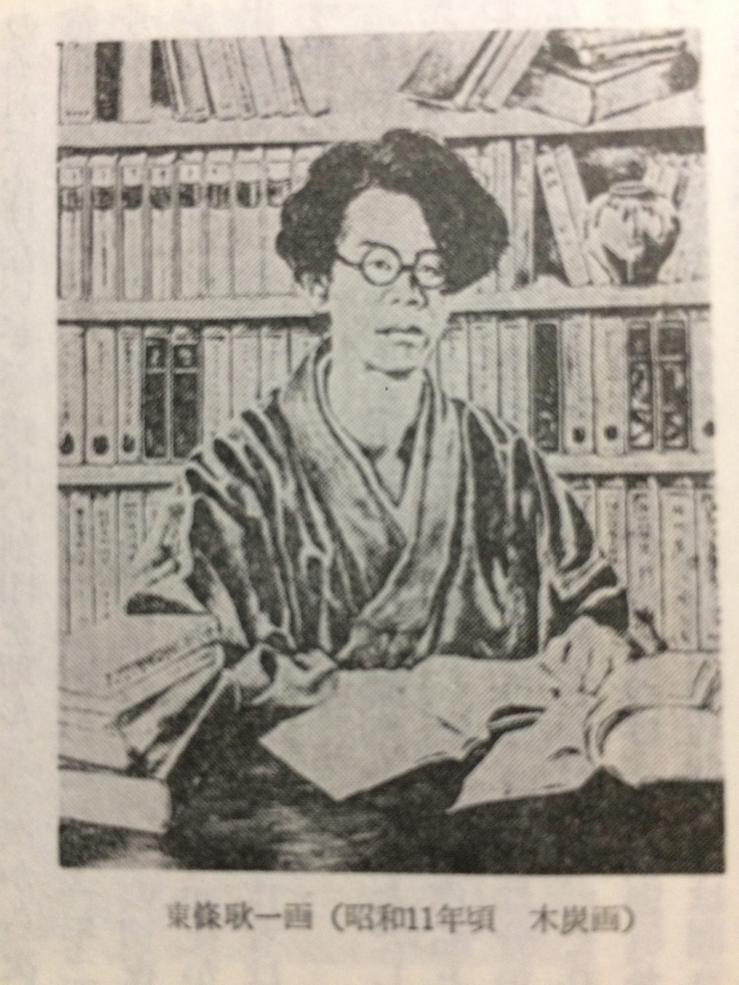 Portrait of Hōjō Tamio(drawing by charcoal)